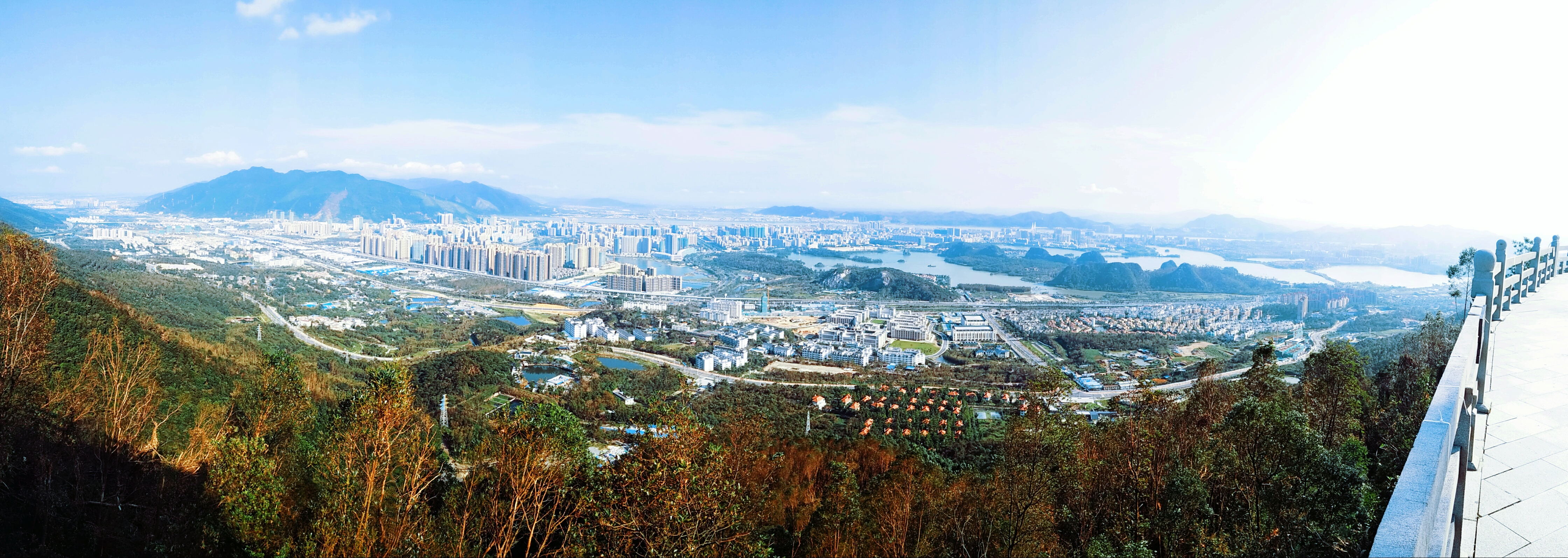 Zhaoqing, Guangdong, China